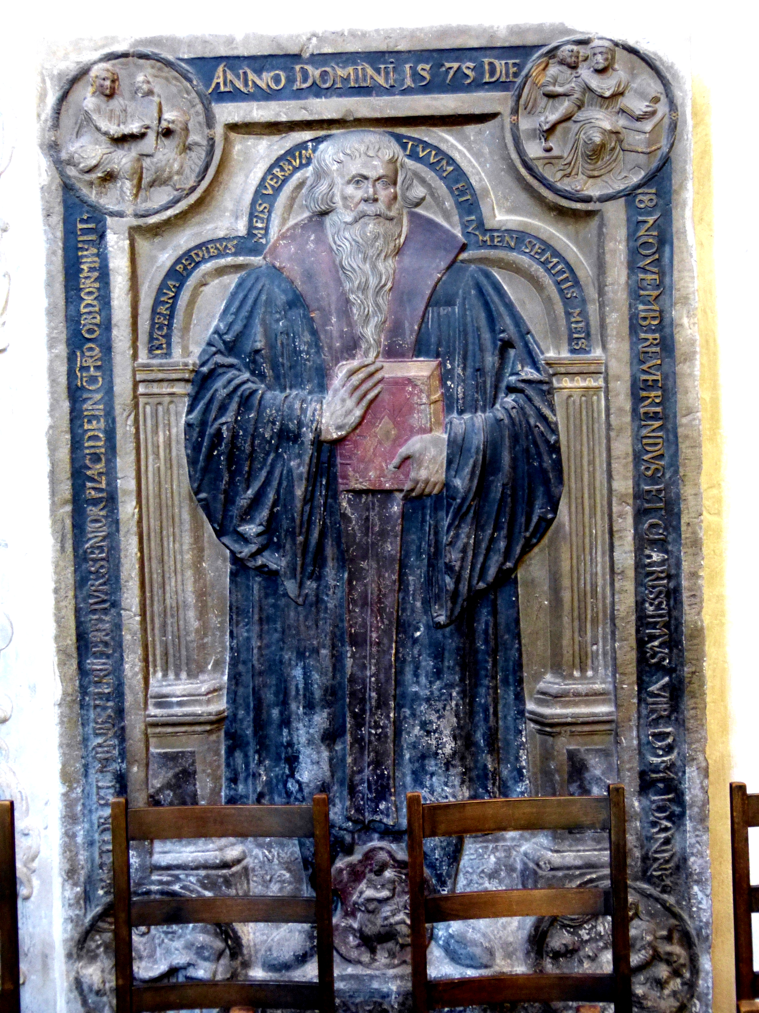 Erfurt ( Thuringia ). Dominican church - Grave monument for Doctor Johannes Aurifaber ( + 1575 ), prominent Lutheran theologian.